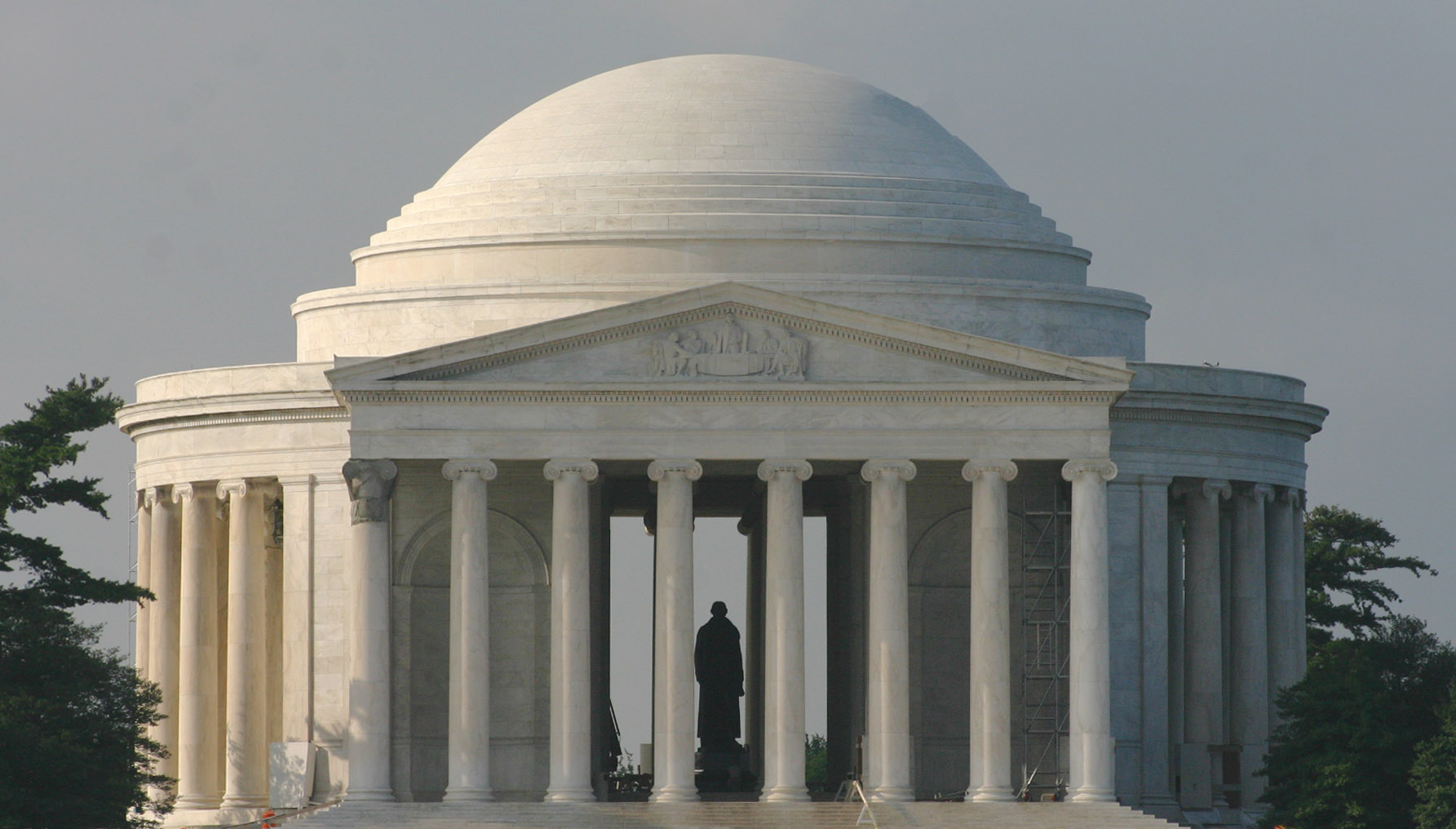 Jefferson Memorial in Washington, D.C.